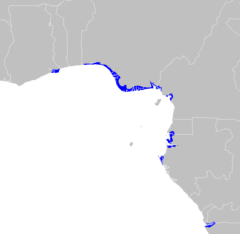 Central African mangroves ecoregion map